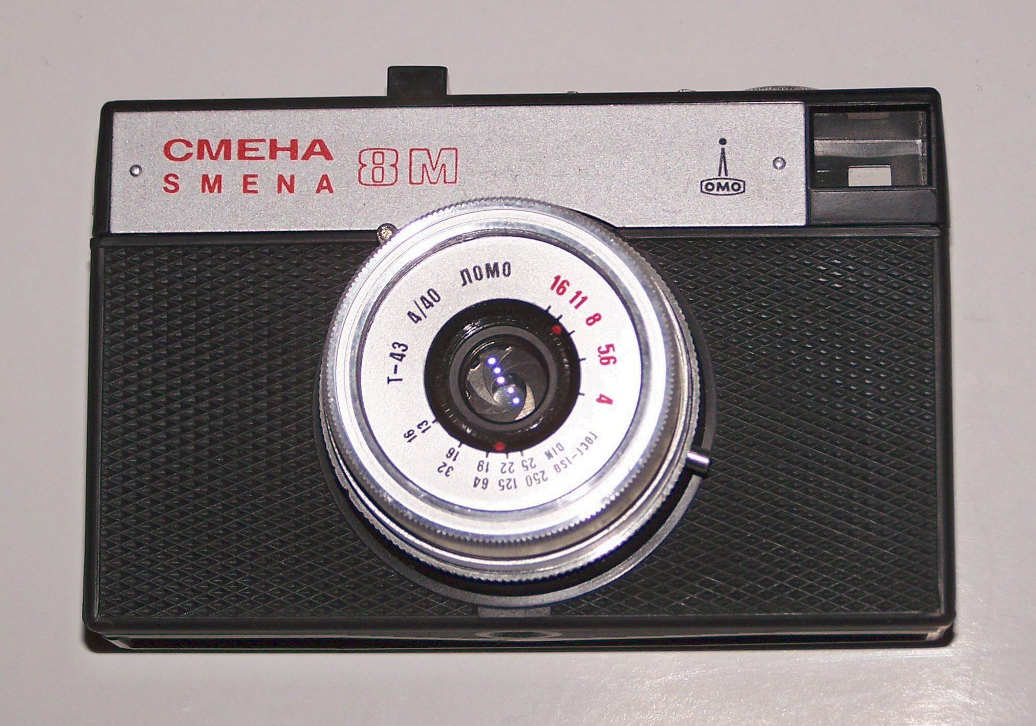 Please see filename above